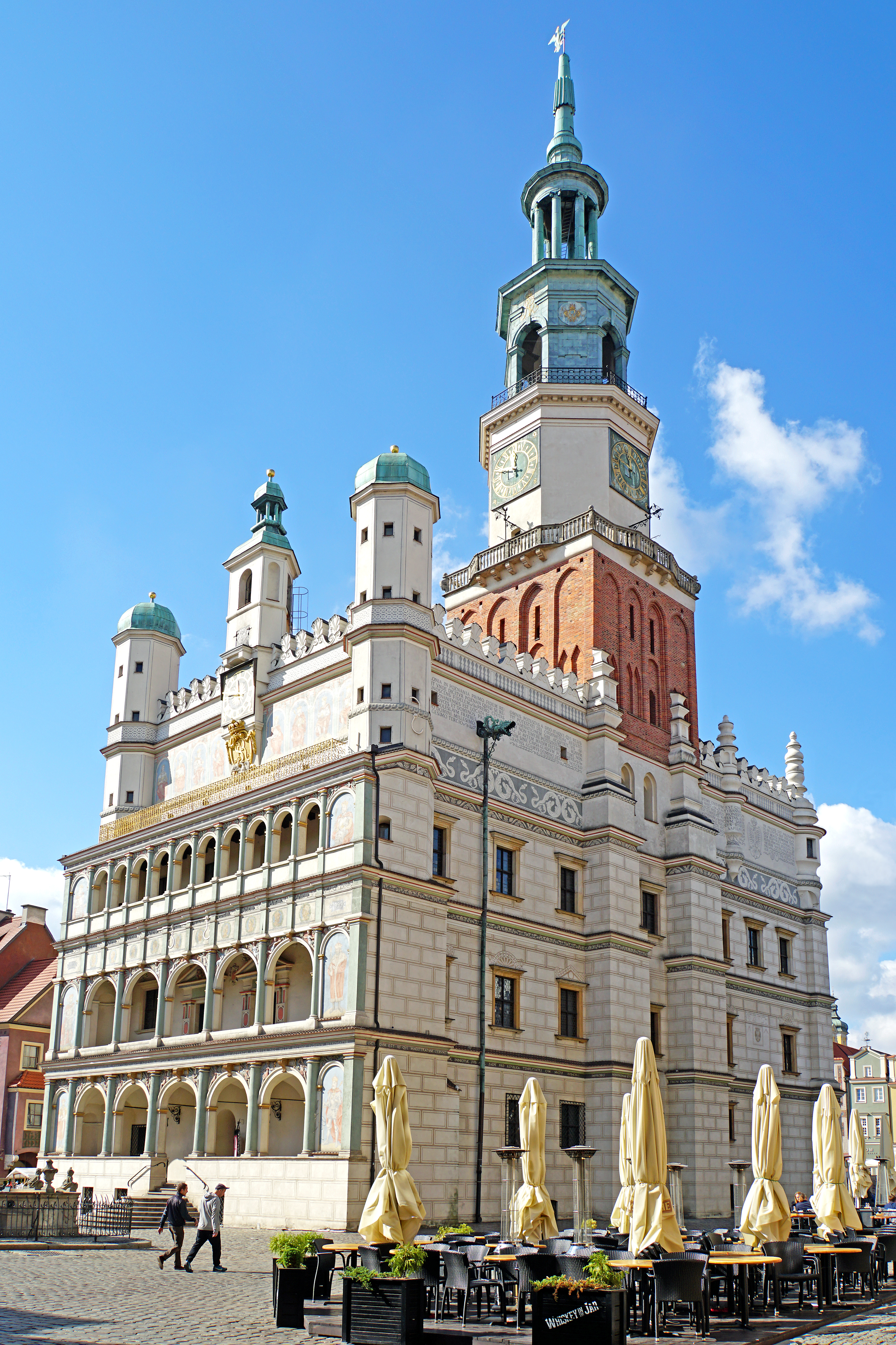 PLEASE, NO invitations or self promotions, THEY WILL BE DELETED. My photos are FREE to use, just give me credit and it would be nice if you let me know, thanks. The Old Town Hall or Ratusz is a historic building in the center of Old Market Square. It used to serve as the Seat of local government until 1939, and now houses a museum. The town hall was originally built in the late 13th century following the founding of the medieval city in 1253; it was rebuilt in roughly its present-day form between 1550–1560.